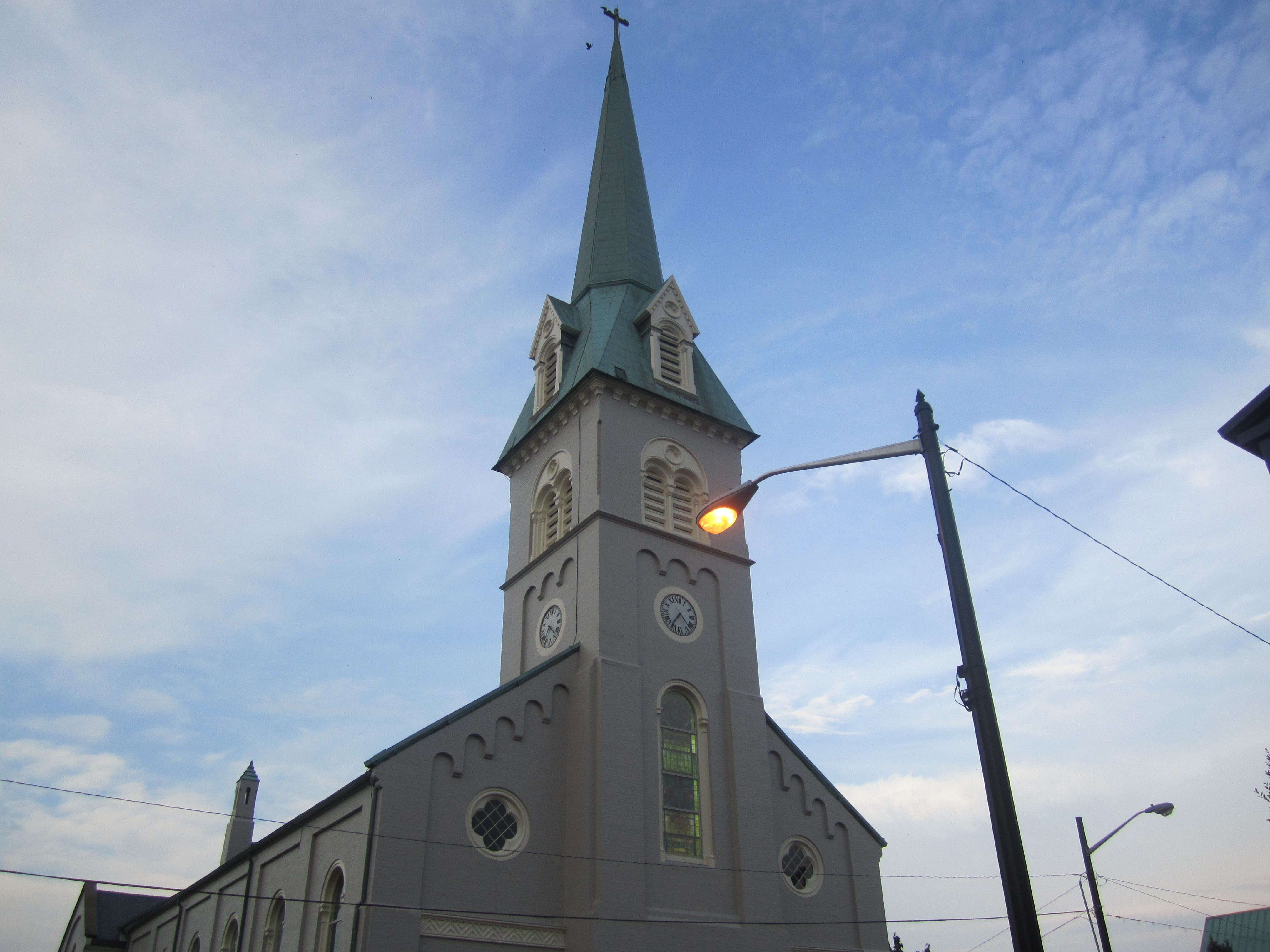 I took photo of St. George's Episcopal Church in Fredericksburg, VA, using Canon camera.